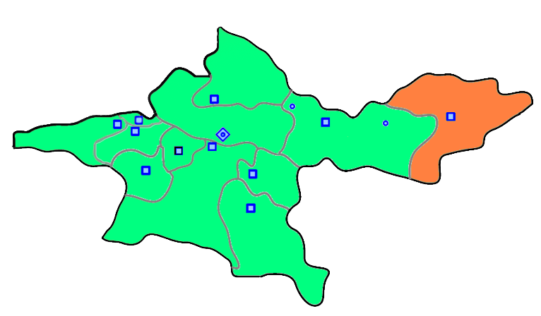 Firuzkuh county of the Tehran Province in Iran. Taken from: and edited by Mani Parsa.